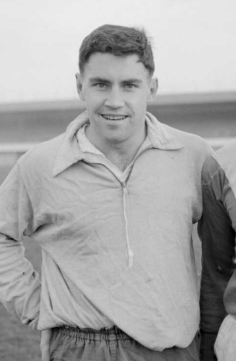 Australian rugby union football players P Johnson and T Baxter